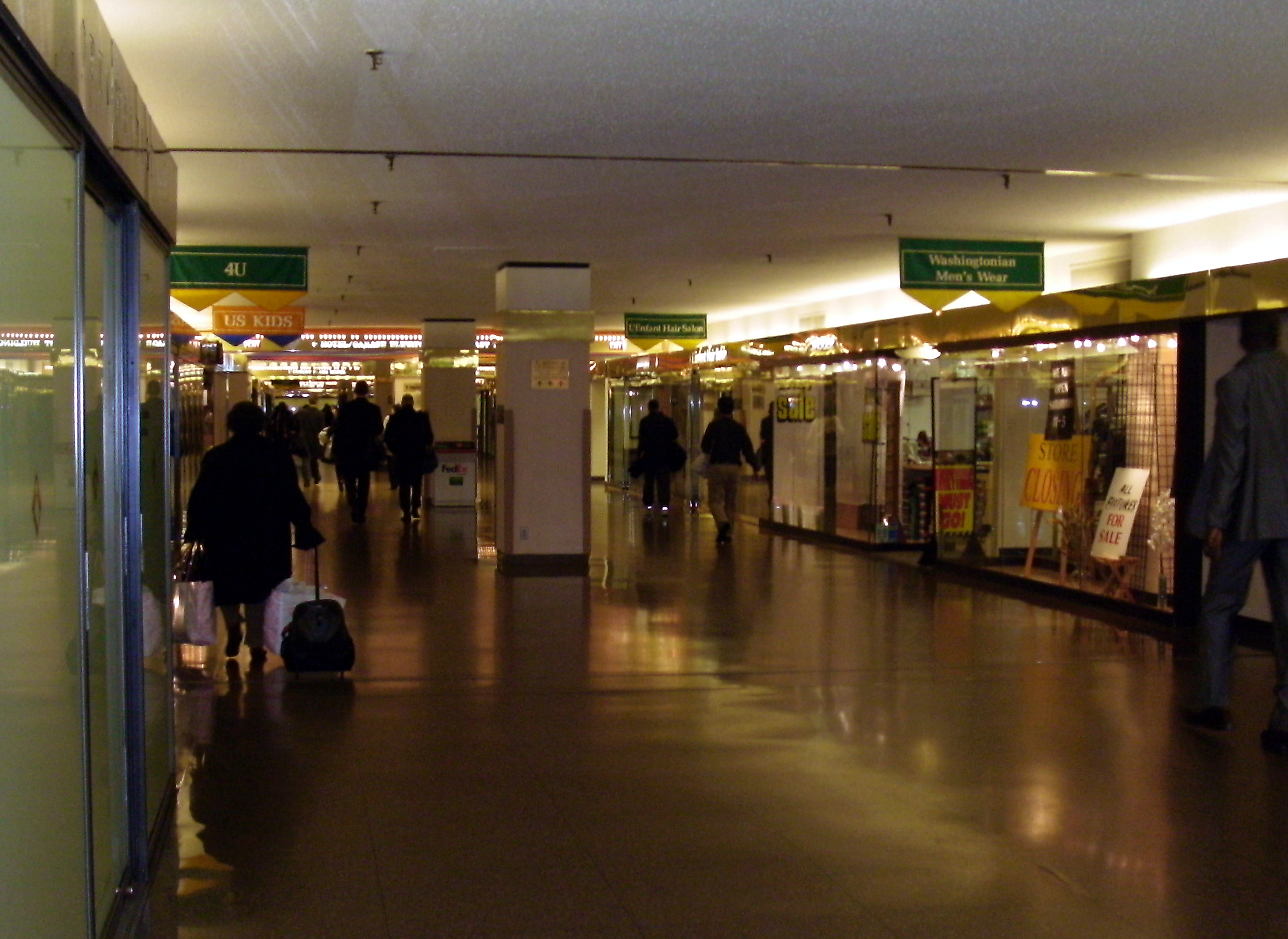 Looking west down "La Promenade," an underground shopping mall and food court beneath L'Enfant Plaza in Washington, D.C., in the United States. This image shows the shopping mall beneath the L'Enfant Plaza Hotel in 2009, prior to its 2010-2011 renovation. Cropped and lightened version of an image taken by the photographer of the image for Wikipedia.